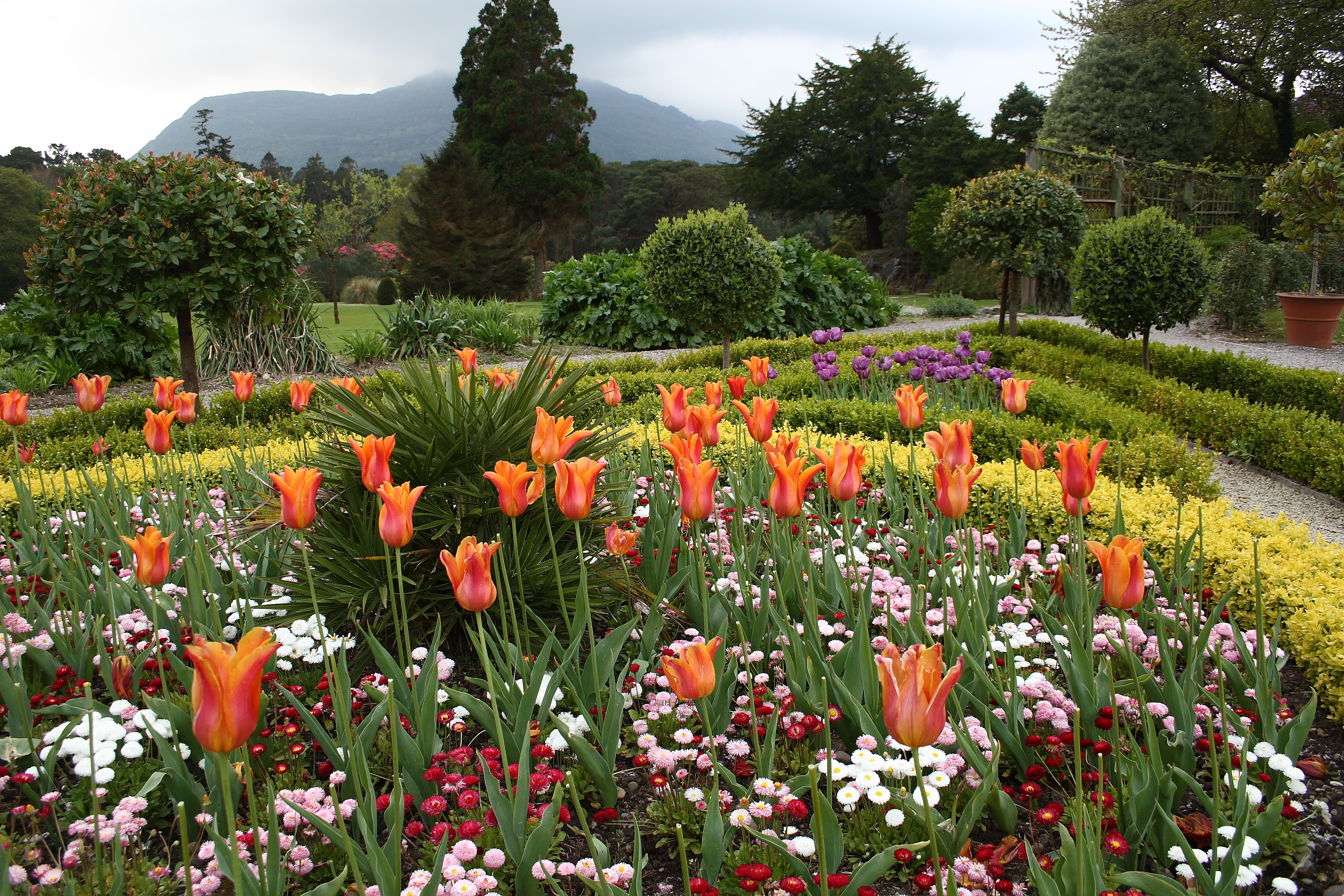 Flower Garden at Muckross House, with mountains in distance